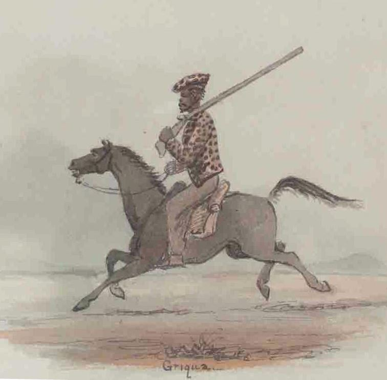 Early painting of a Khoi-khoi mounted gunman from the Kat River Settlement. Labelled "Griqua".